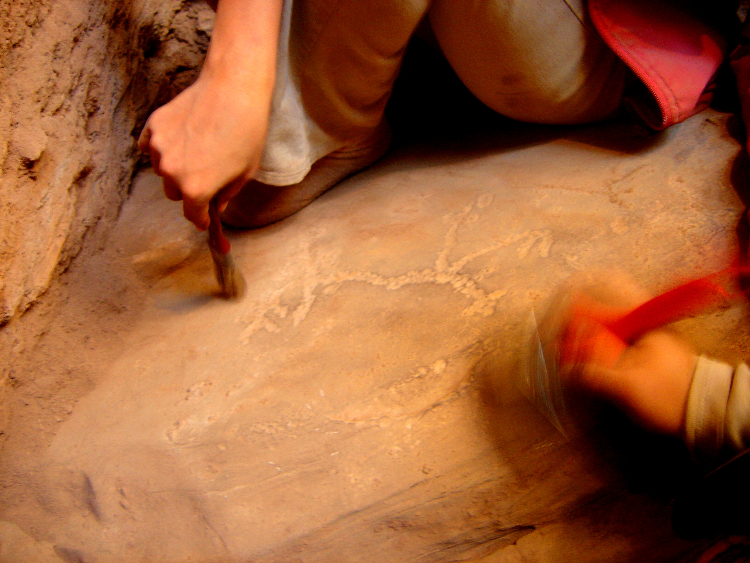 Lapa do Santo - Em 2009 foi descoberto abaixo de quase 5 metros de sedimento um grafismo picoteado que representa a mais antiga expressão artística do continente americano. Essa foto representa o momento exato desse acontecimento.